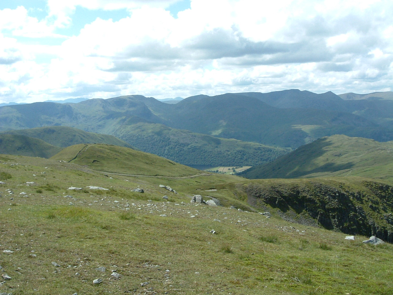 The Knott